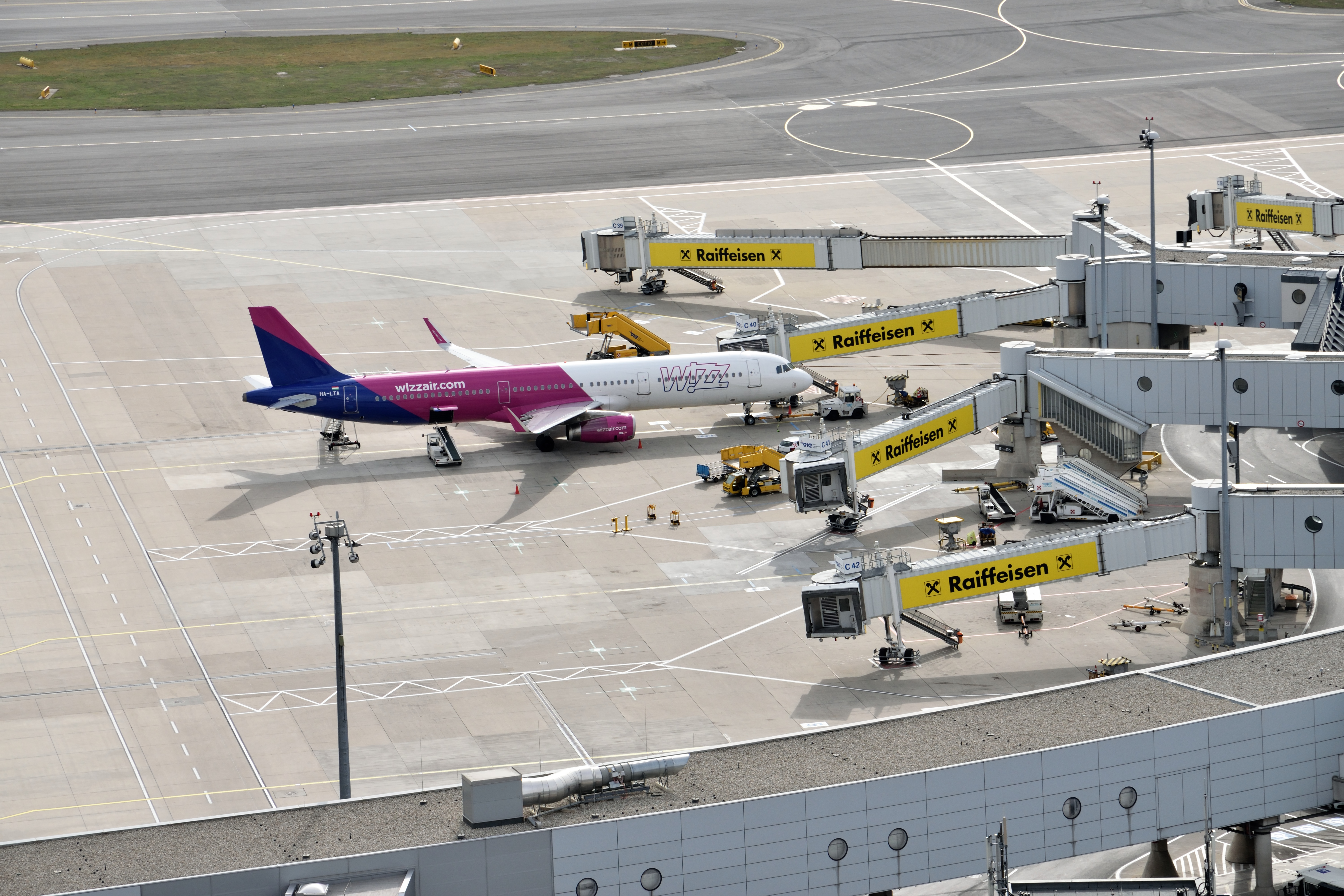 Airbus 321-231 HA-LTA, Wizzair, Pier West Vienna International Airport from the Air Traffic Control Tower